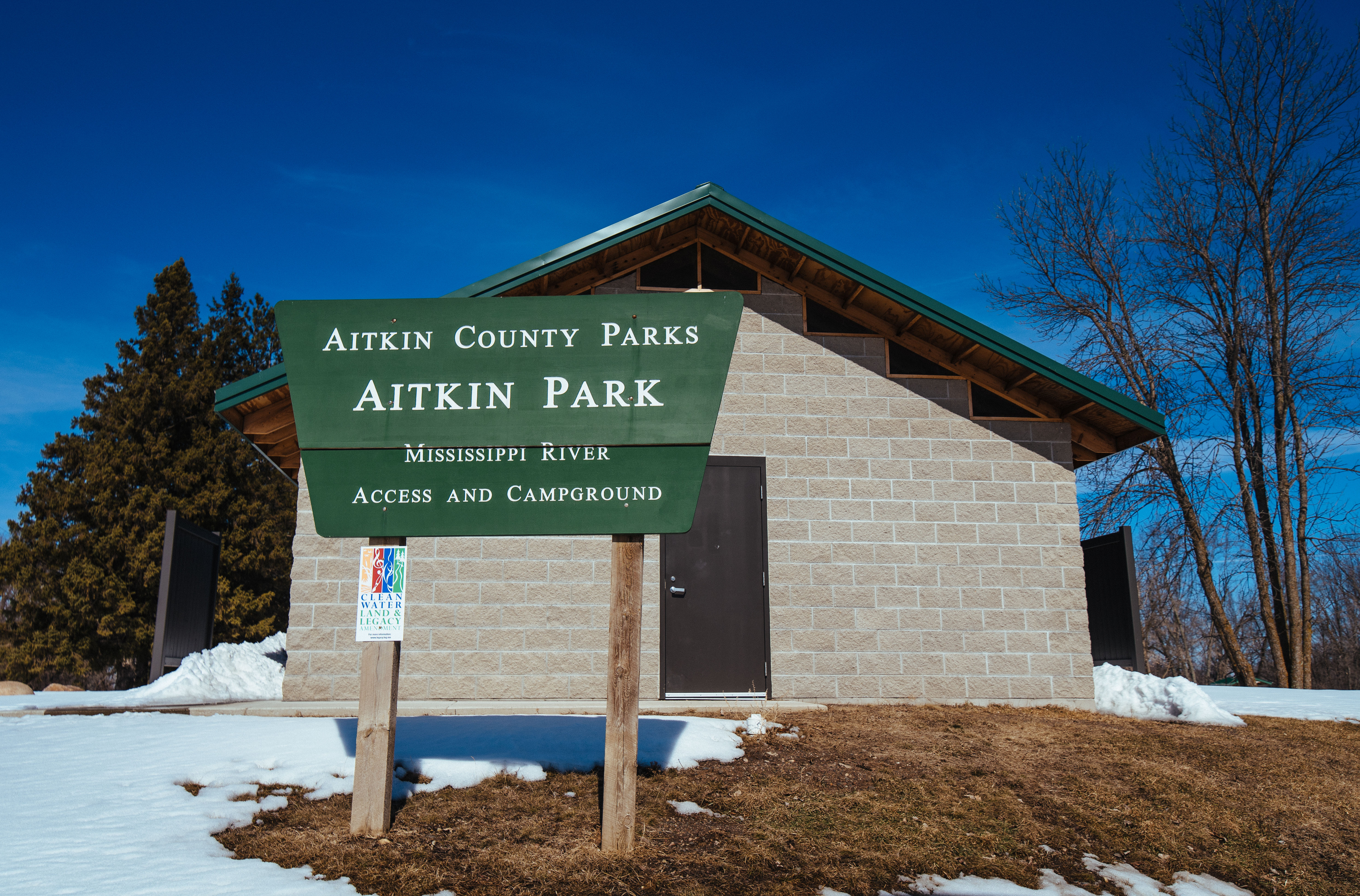 Aitkin Campground (Aitkin County Parks) along the Mississippi River in winter, City of Aitkin, Minnesota.